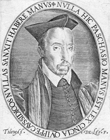 French jurist and poet Étienne Pasquier (1529-1615) by Thomas de Leu (1560-1612).